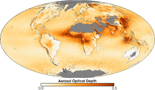 Aerosols are tiny particles, such as soot or dust, suspended in Earth’s atmosphere. In addition to their air quality impacts, aerosols can interfere with sunlight reaching the planet’s surface, which means they play a role in the climate. Remote-sensing scientists often talk about aerosols in terms of their optical depth, which indicates how much of the incoming sunlight aerosols prevent from reaching the Earth’s surface. The global aerosol patterns in 2006 were similar to previous years. High aerosol concentrations were observed over western and central Africa (a mixture of dust from the Sahara and smoke from agricultural fires), northern India (where urban and industrial pollution concentrates against the foothills of the Himalaya Mountains), and northeastern China (urban and industrial pollution). Aerosol optical depth appeared unusually high in 2006 over Indonesia, probably as a result of increased fire activity there. The image also shows the impact of fires in Russia’s boreal forest, which spread aerosols into the Arctic.